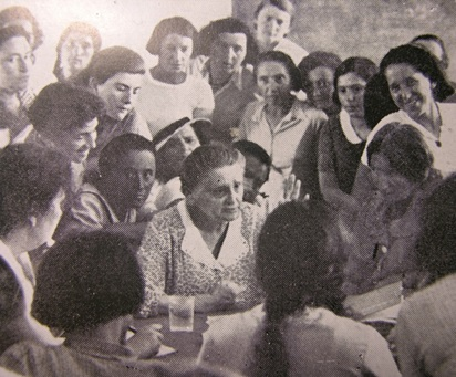 Puah Rakovsky, Tel Aviv, 1938